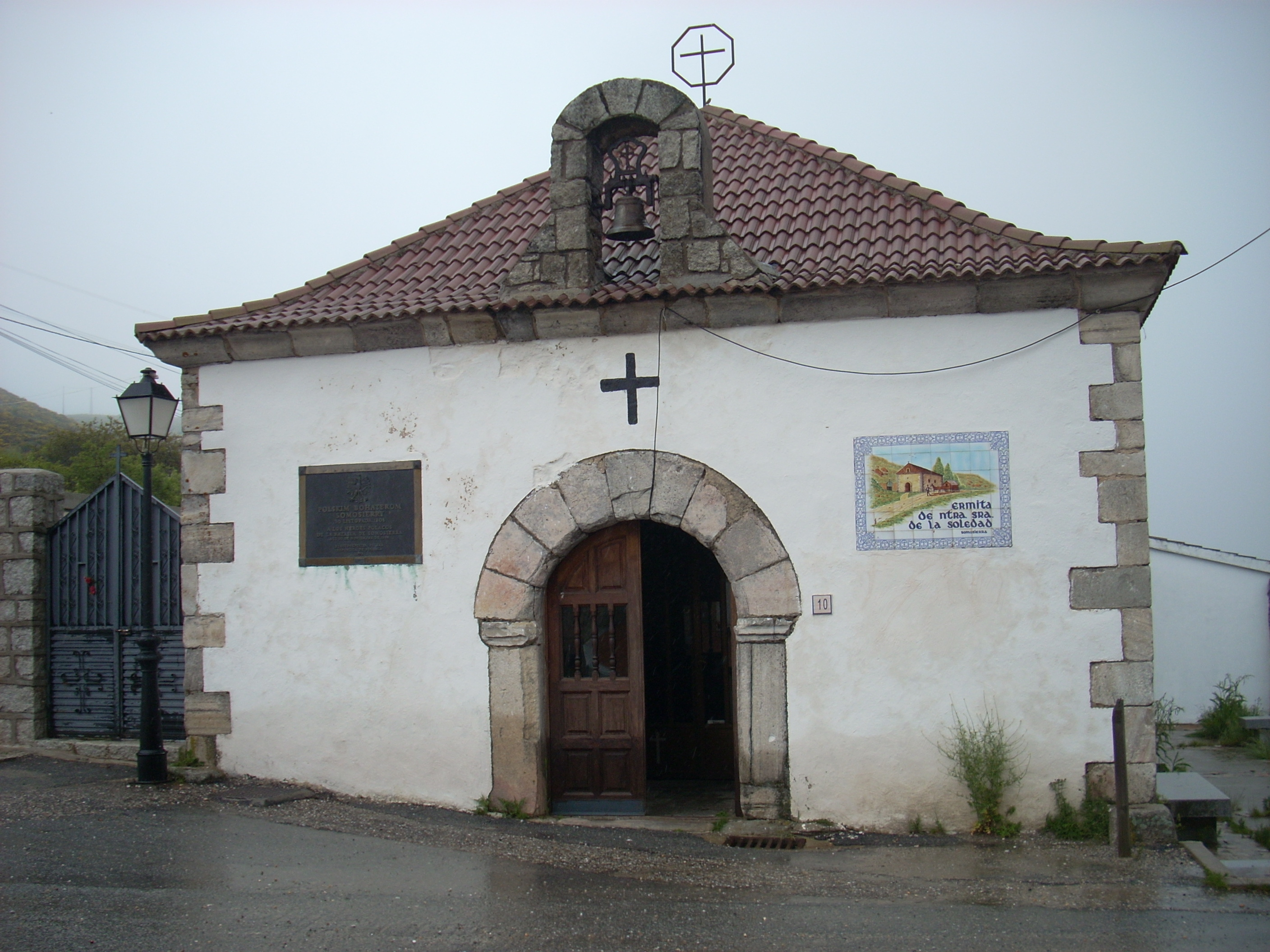 Hermitage of Our Lady of Solitude, Somosierra, Spain